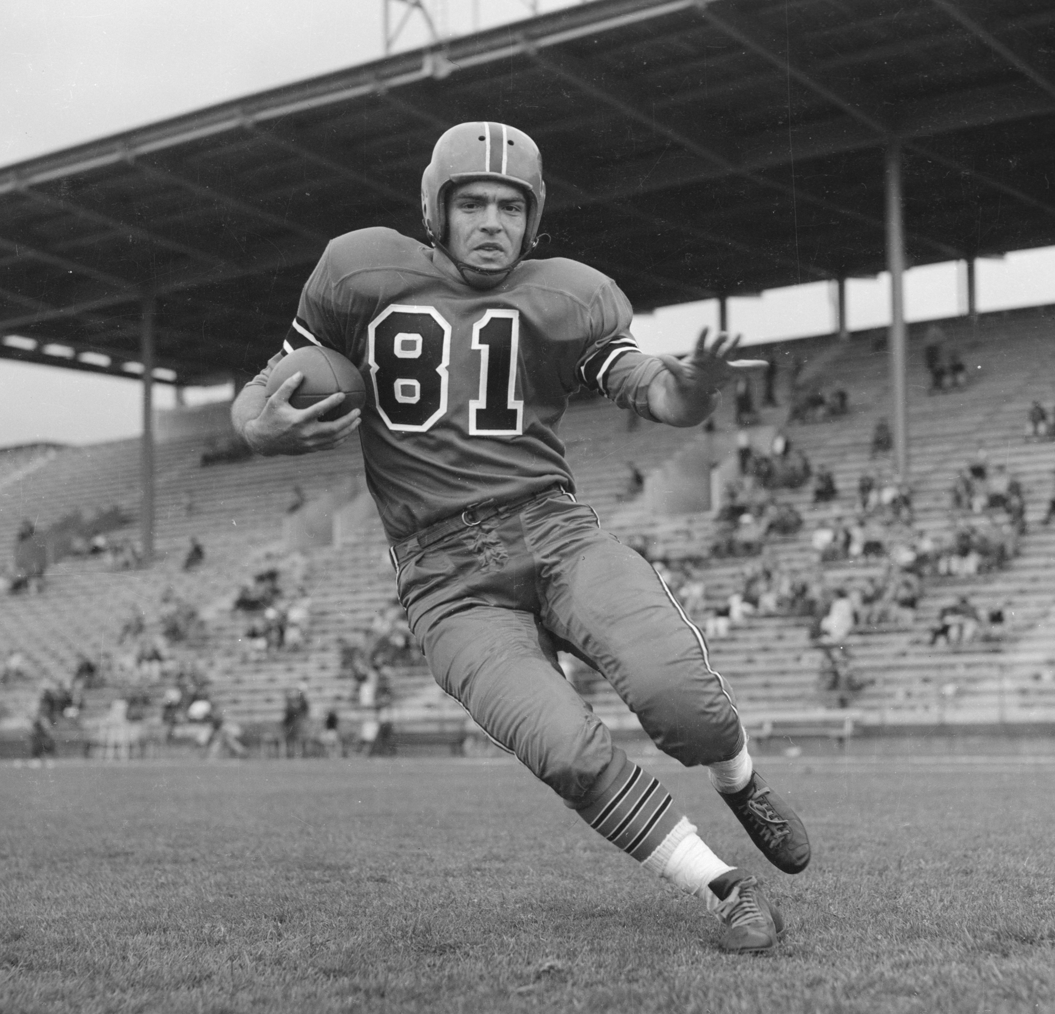 B.C. Lions football club, Jack Hutchinson, Number 81 VPL Accession Number: 84780JA Date: July 10, 1954 Photographer/Studio: Jones, Art Content: Part of a series 84780+ (63 photos) Topic: Sports Sports teams Football Football players Costume Sports uniforms Person: Thodas, Pete (B.C. Lions Football club) Organization: B.C. Lions Football Club Location: British Columbia - Vancouver More information on our historical photograph collection